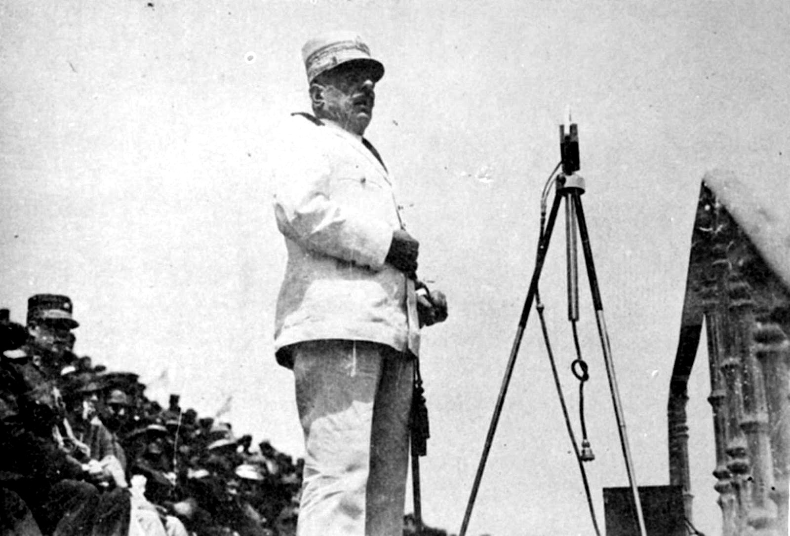 Minister of Military Affairs and Deputy Prime Minister of Greece Georgios Kondylis in white uniform gives a speech, summer 1935